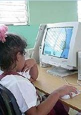 Photo of a Cuban girl using a PC in a school